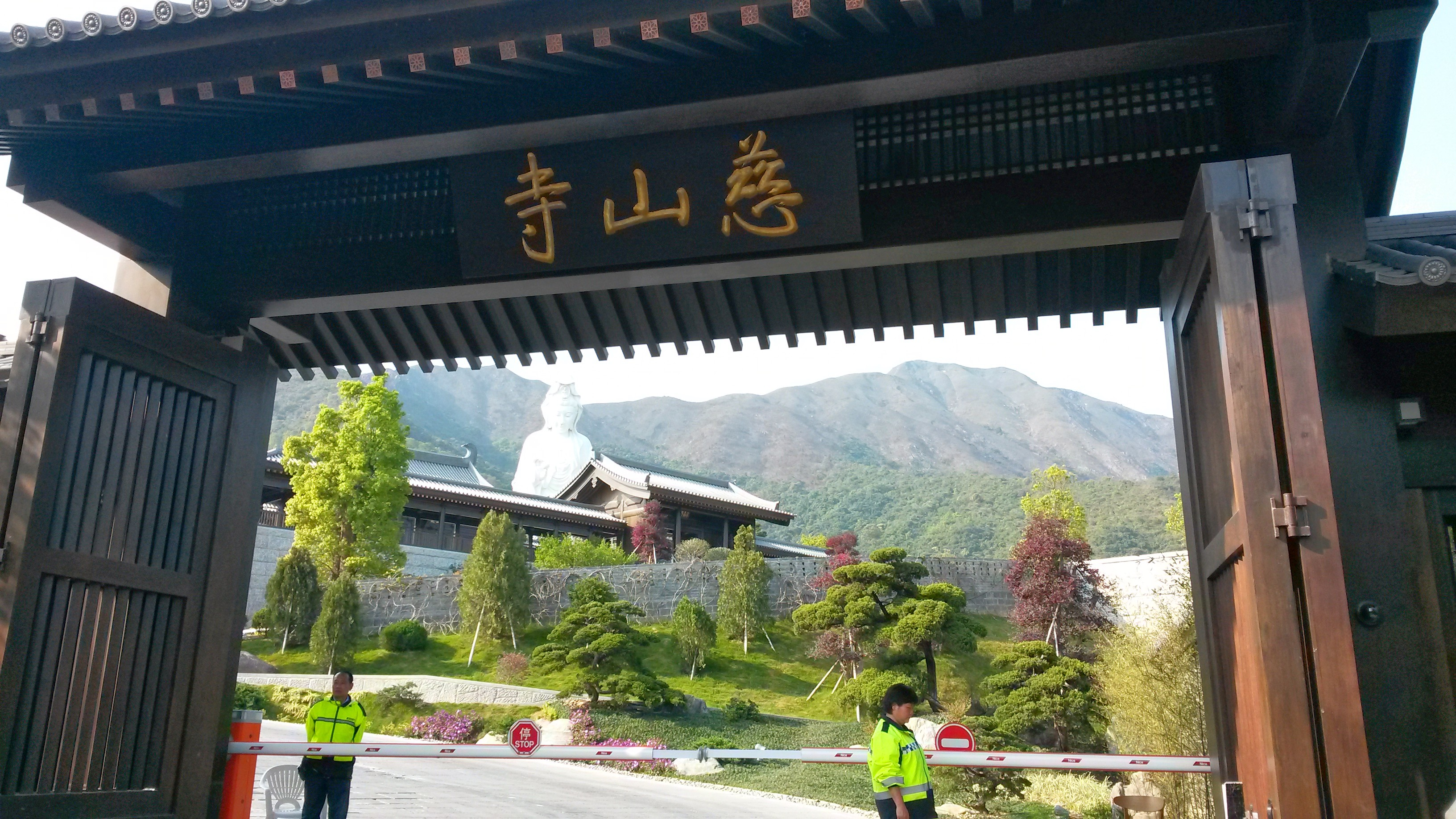 Tsz Shan Monastery